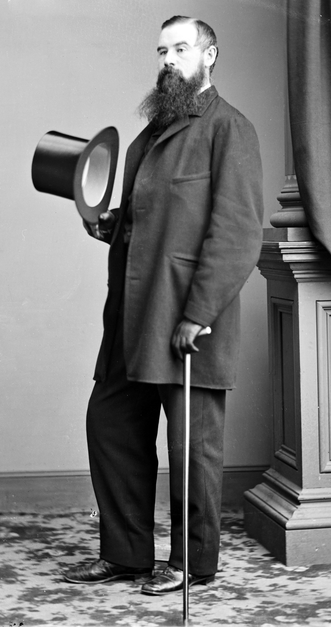 United States author, poet and folklorist Charles Godfrey Leland.